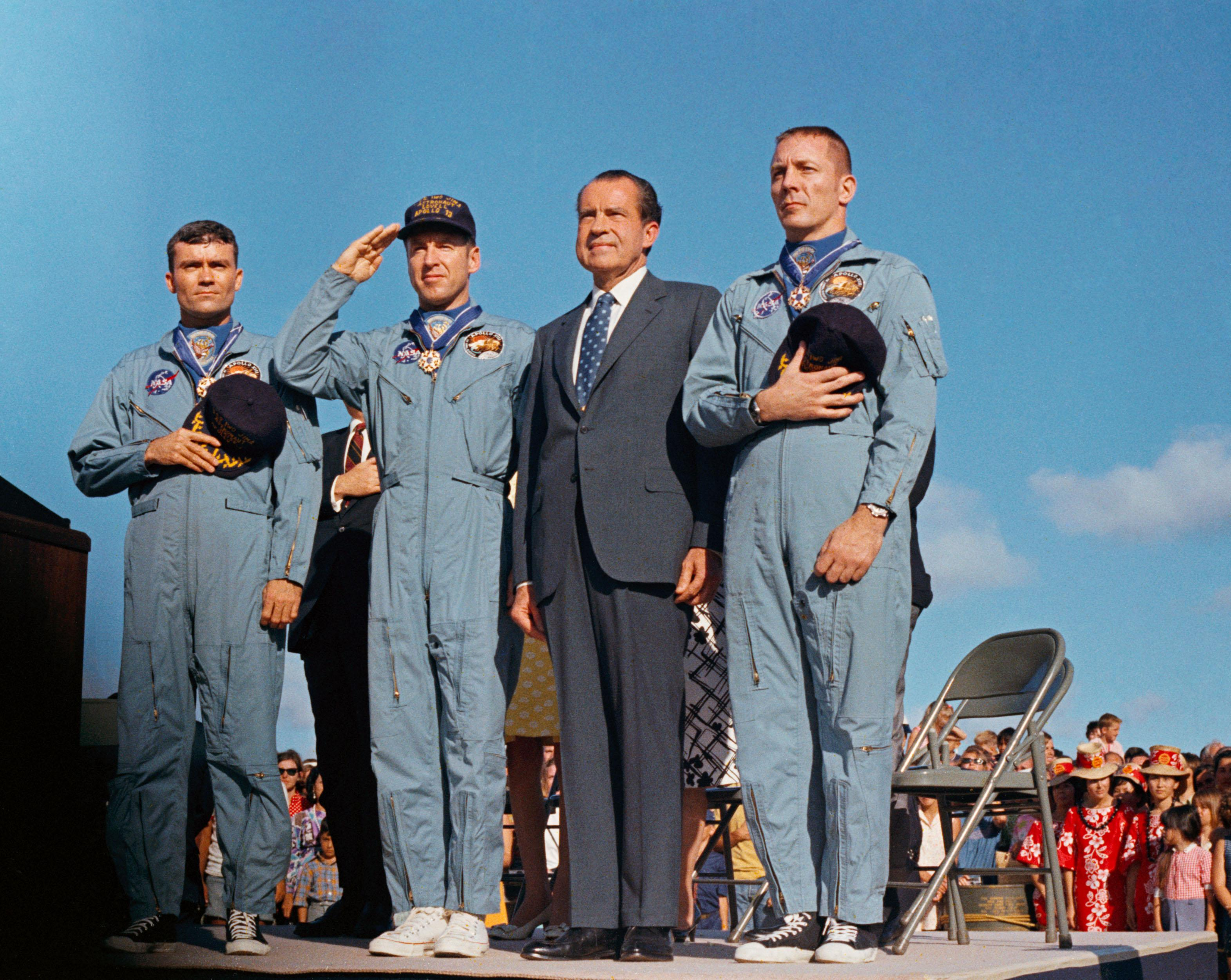 President Richard M. Nixon and the Apollo 13 crew Posing for Pictures during (some claim this is a flag or anthem being saluted but it is not) post-mission ceremonies at Hickam Air Force Base, Hawaii. Earlier, the astronauts John Swigert, Jim Lovell and Fred W. Haise were presented the Presidential Medal of Freedom by the Chief Executive.